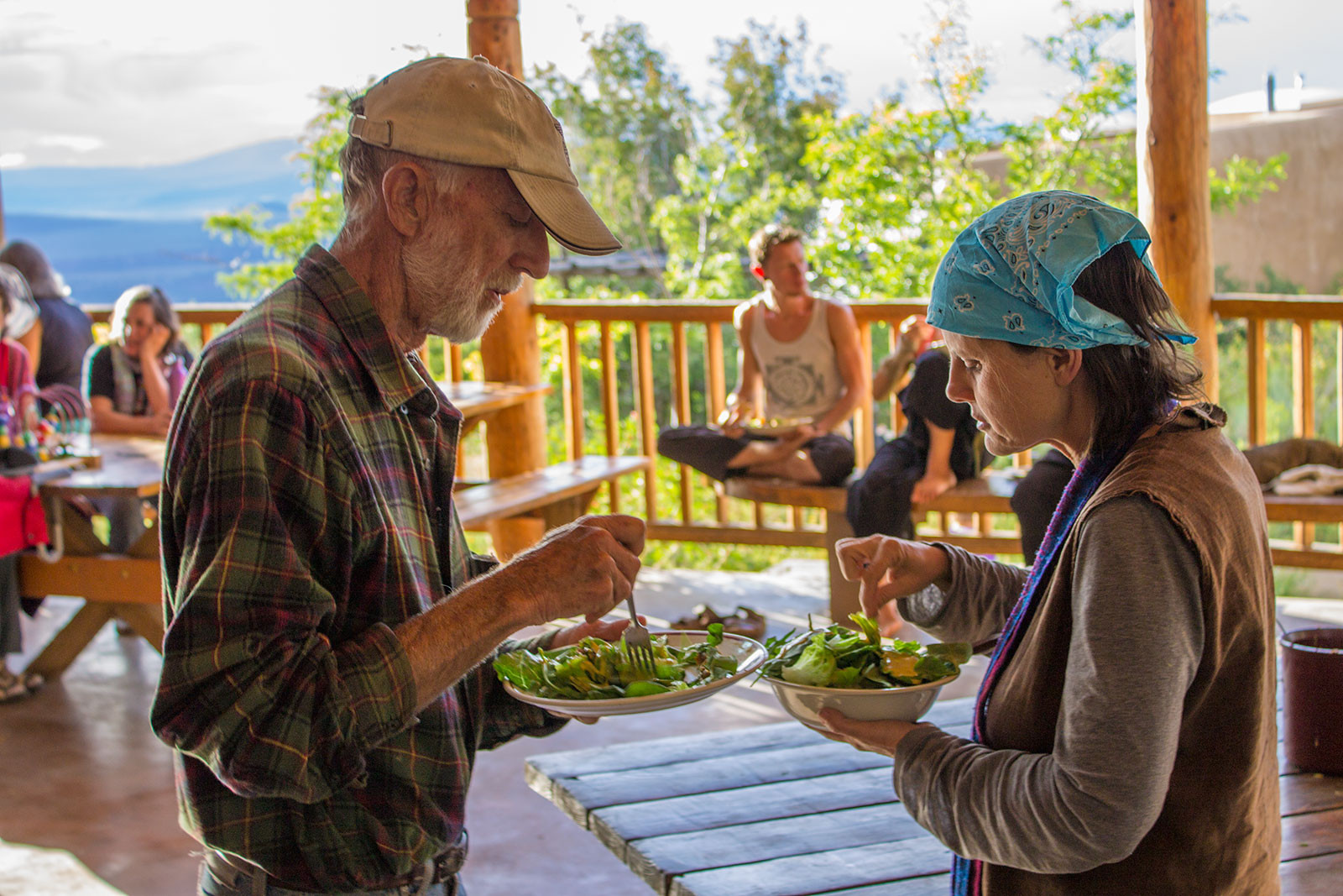 Photo by Bobby Burke